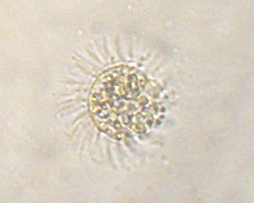 North-West Black Sea, coastal waters, at a depth of 0.5 metre